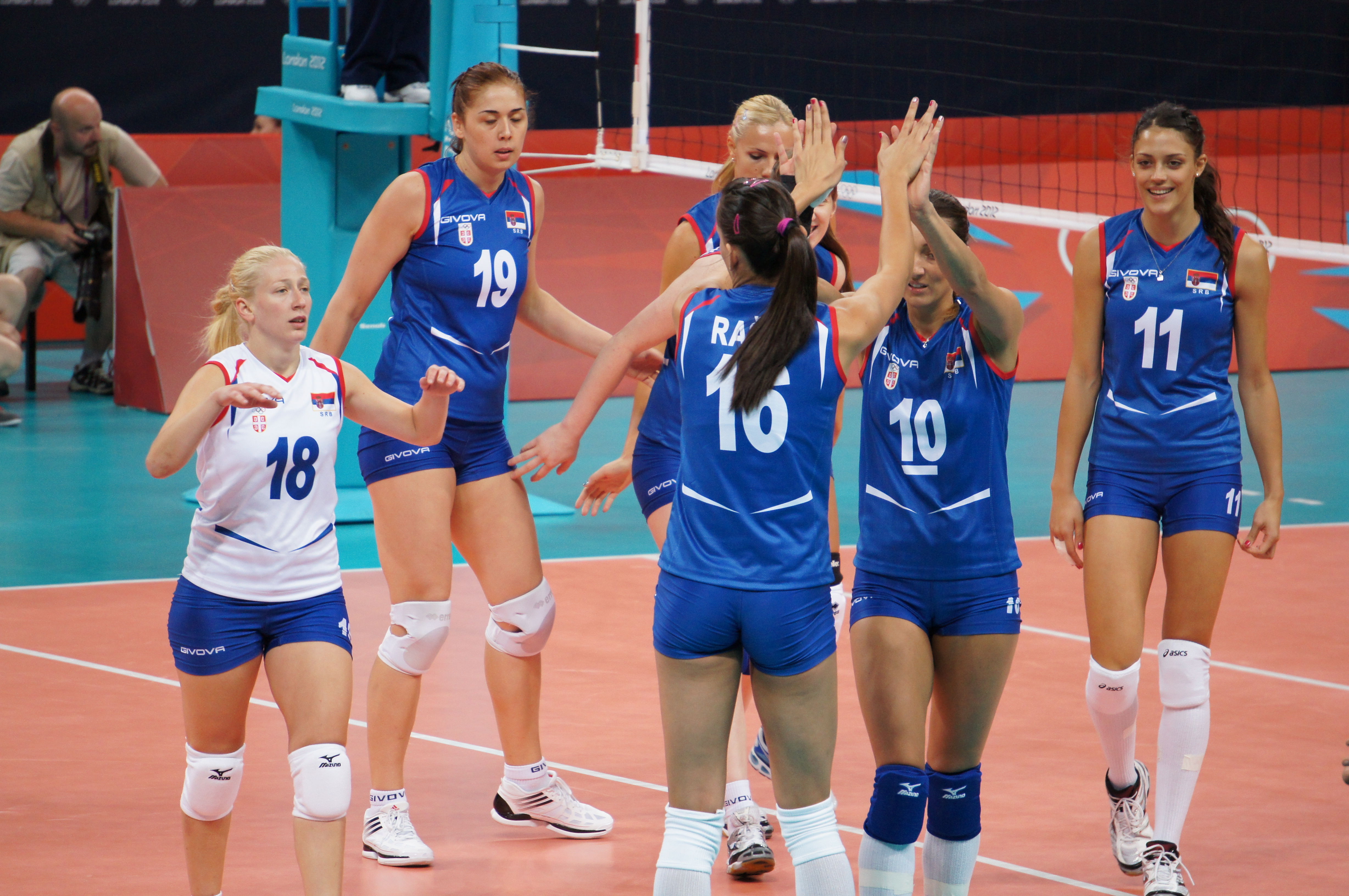 Serbia national volleyball team at the 2012 Summer Olympics